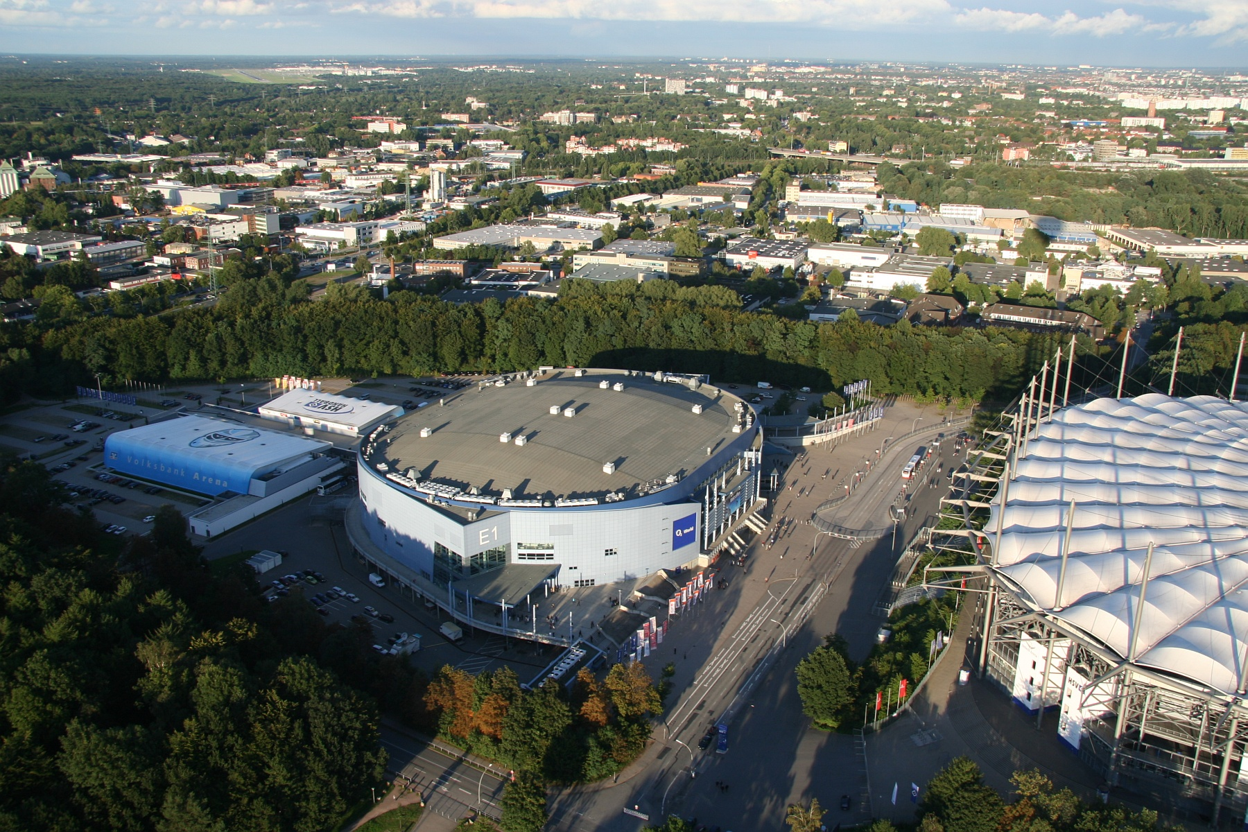 O2 World Hamburg in Hamburg-Bahrenfeld